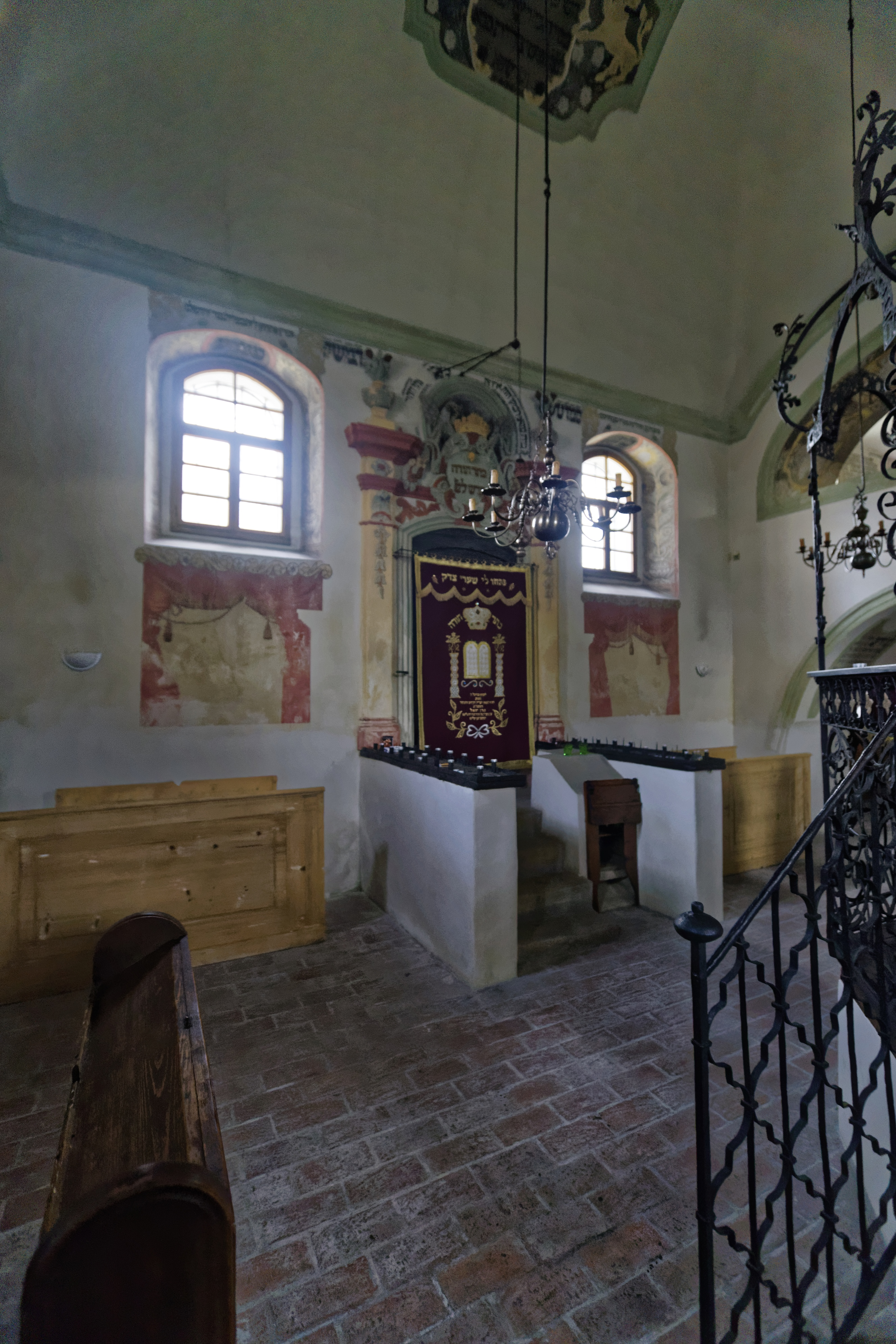 Holešov - Příční ulice - Šachova synagoga 1560 (1725)